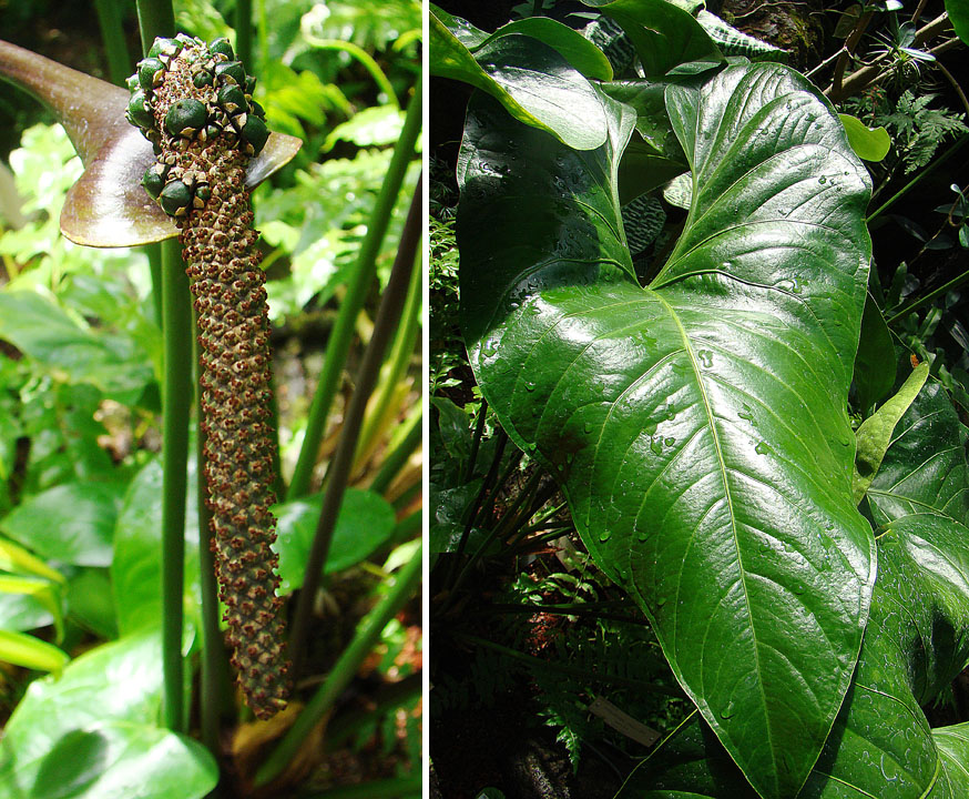 Native to Costa Rica and Panama, where it is known as the Anturio Negro. UC Berkeley Botanical Gardens. In context at